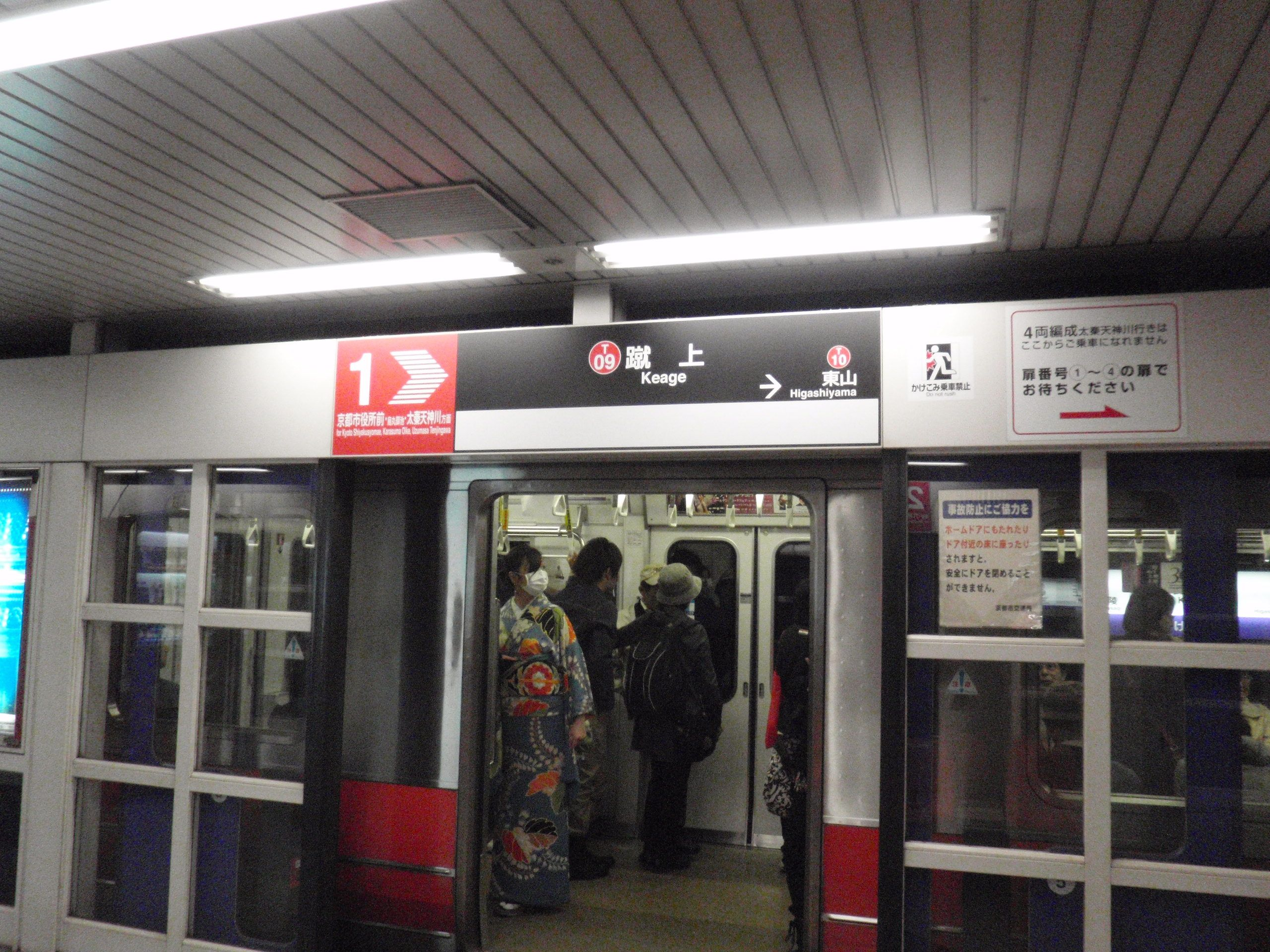 Keage Station